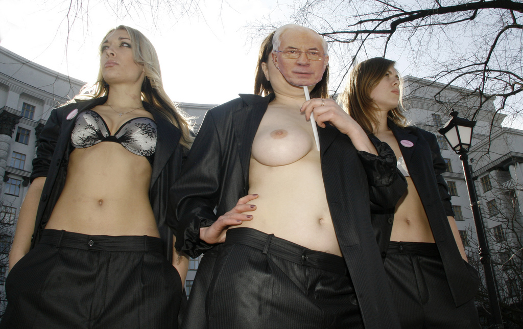 22 March 2010. Women's Movement FEMEN activists stand in front of the Cabinet. One of them with naked breast holding the mask with the face of the current Premier Minister Azarov protesting against rude and humiliating position towards ukrainian women.